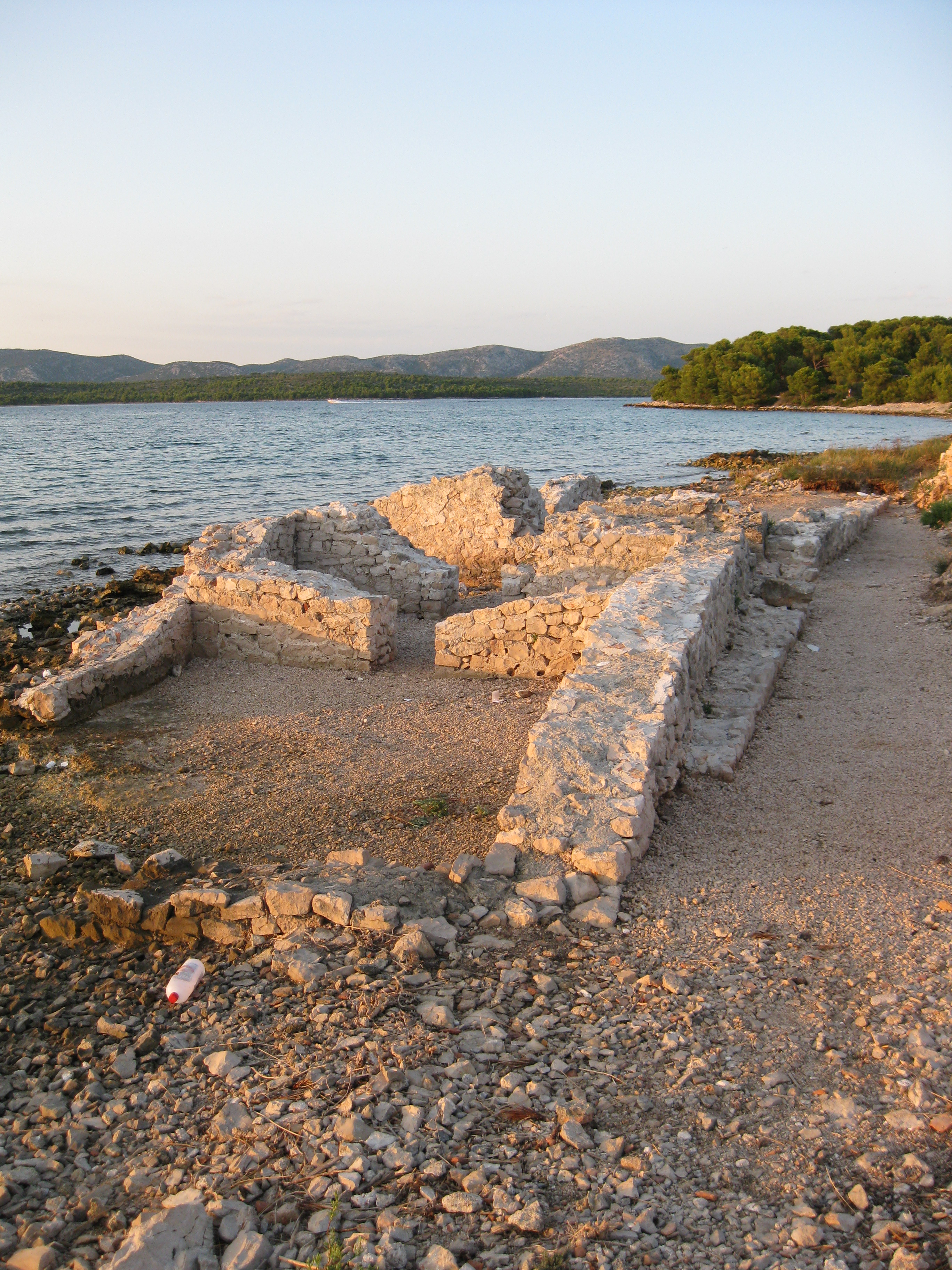 Colentum, Island of Murter (Croatia), ancient Roman city, partly under water